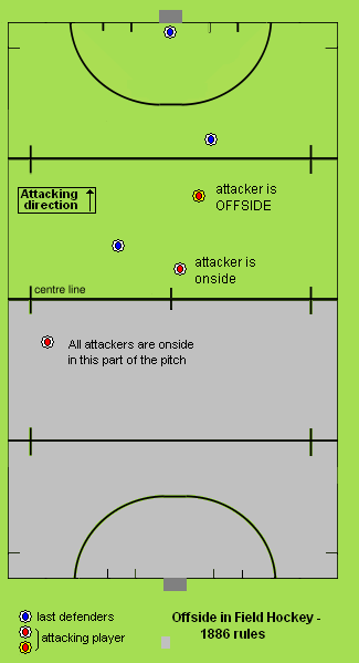 Own - but needs more work - work of User:shirt58 based on free image :Image:Hockey field.svg by User:Robert Merkel